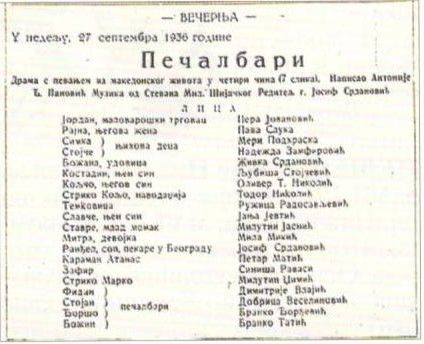 Poster for the drama "Pecalbari" from 1936